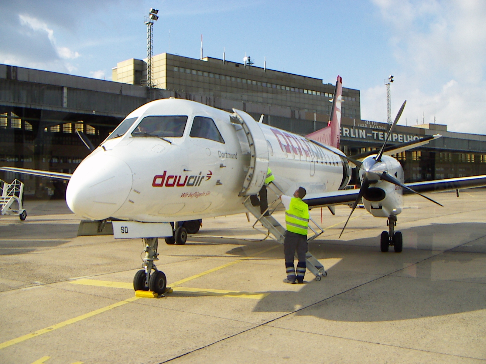 Saab 340 (D-CASD) (operated by Dauair) at Berlin-Tempelhof (THF)